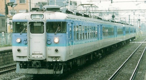 A JR East 169 series EMU in Shinshu livery at Musashi-Sakai Station